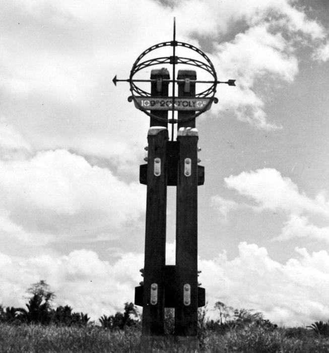 Equator monument in Pontianak, the isle of Borneo, Indonesia.